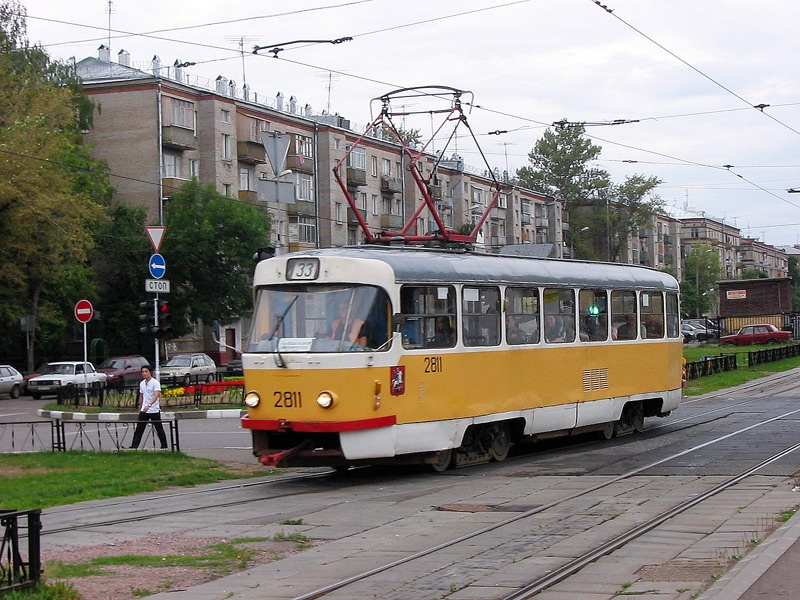 Tatra T3 tram in Moscow, Russia